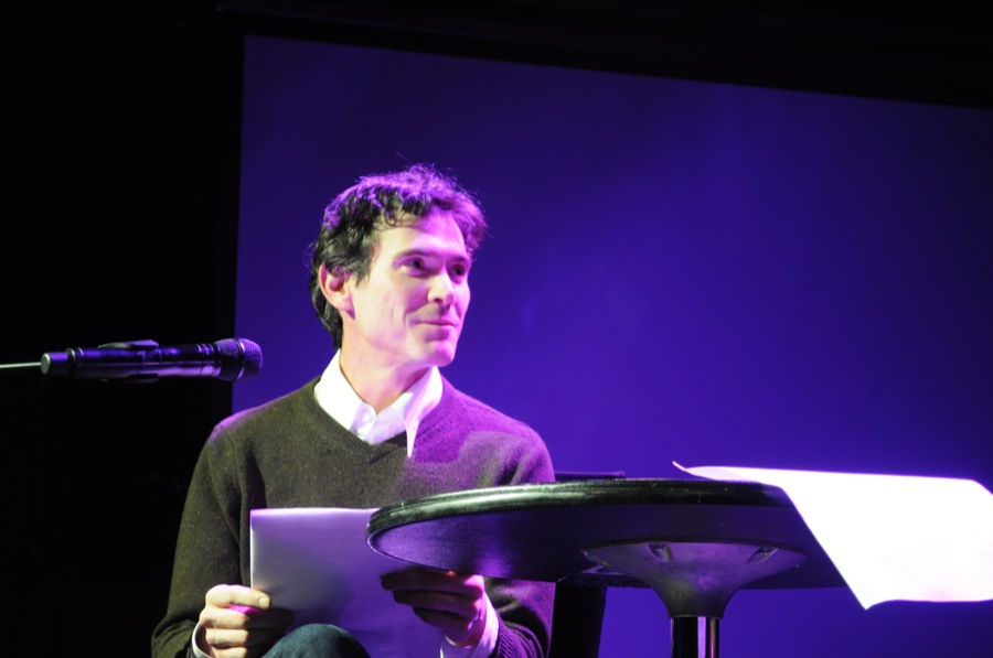 Billy Crudup in NYC.